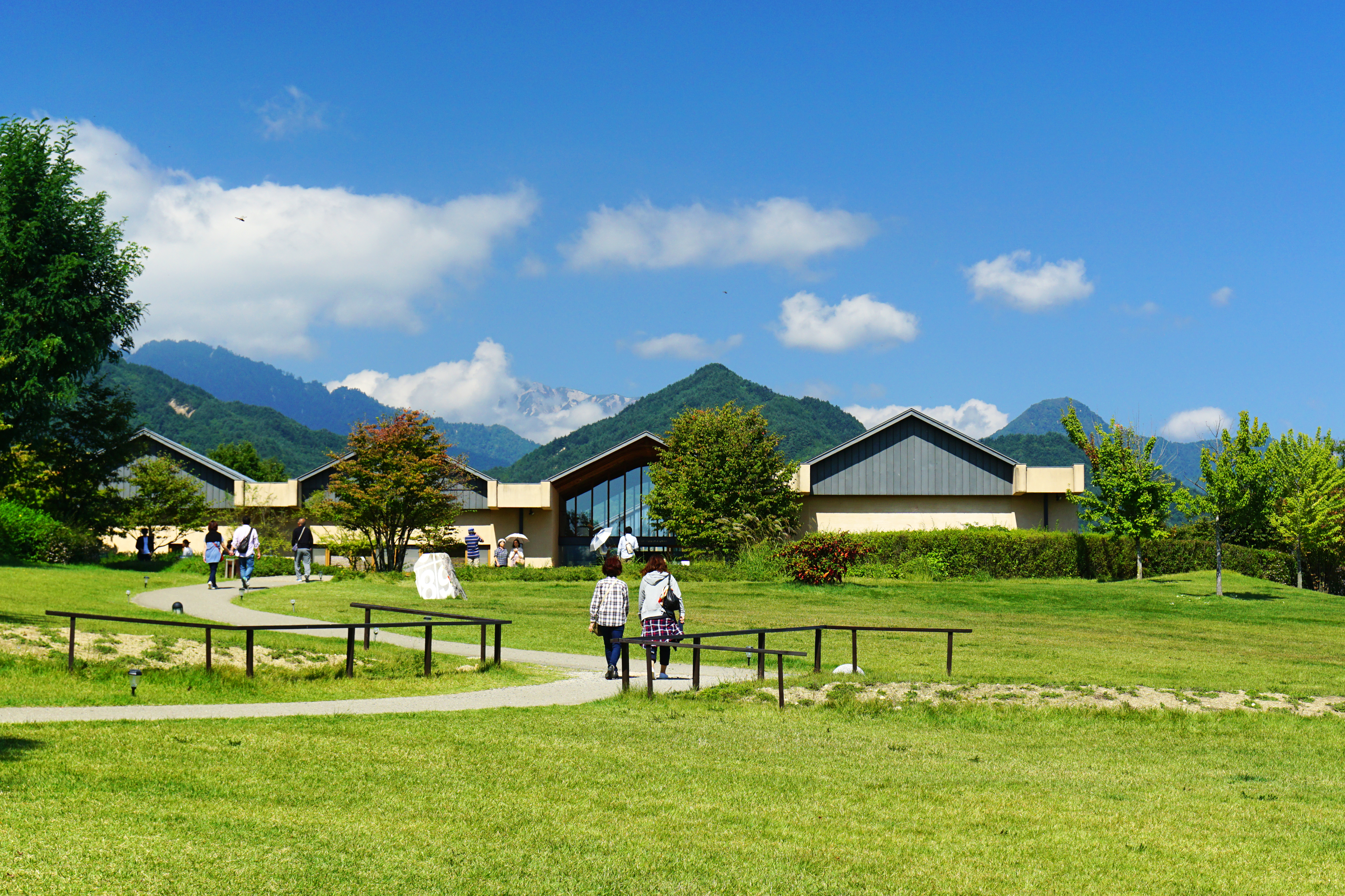 The Chihiro Art Museum Azumino in Matsukawa, Nagano prefecture, Japan